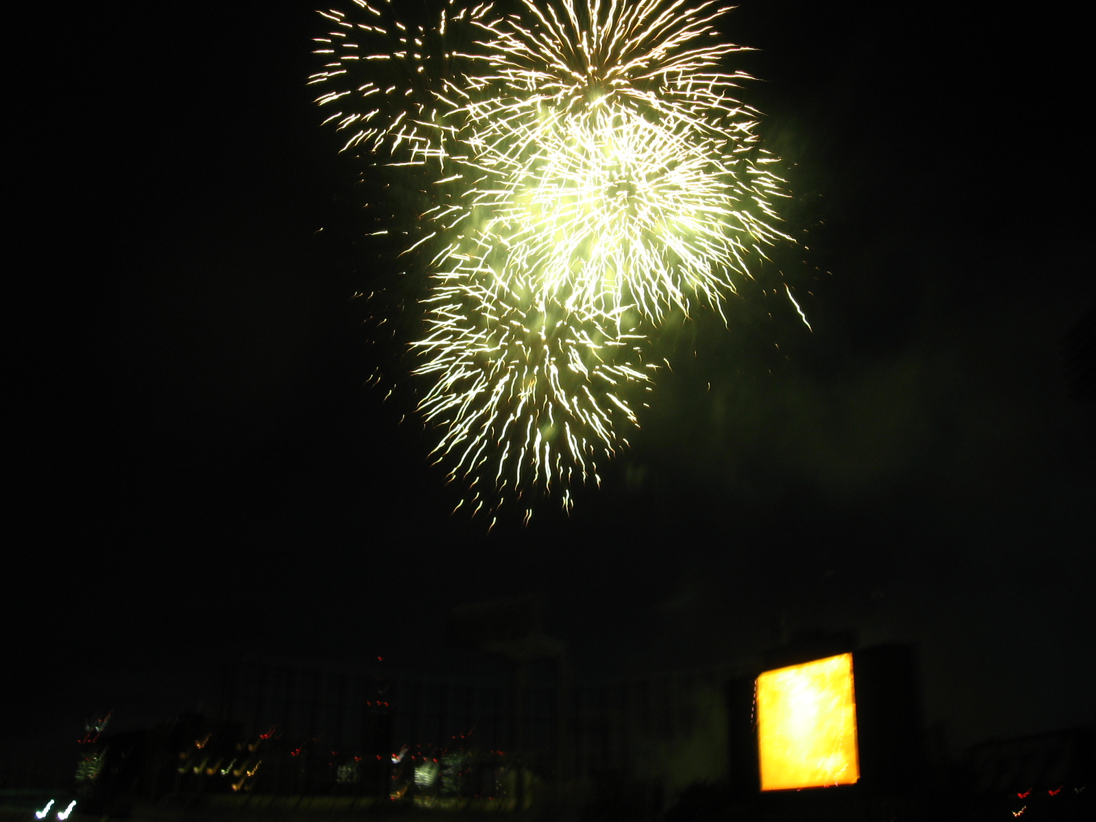 Jingu Fireworks Festival 2008